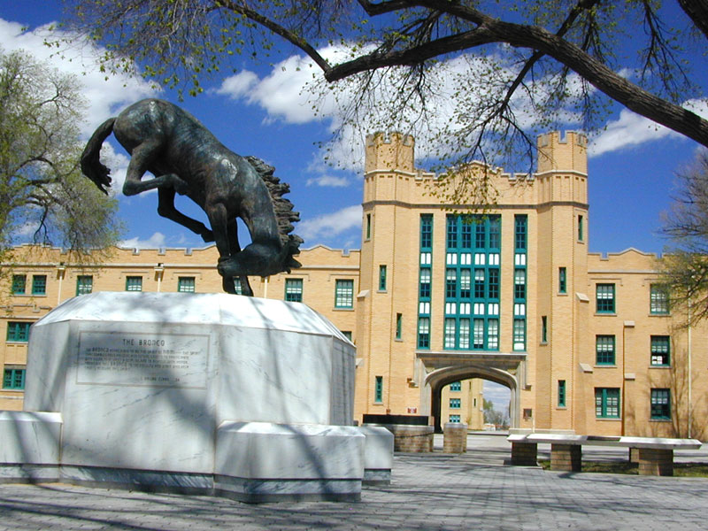 New Mexico Military Institute. This photo was taken facing north and shows Bronco Plaza with the Bronco Statue in the foreground, and the Sally Port of Hagerman Barracks in the background. Photo by Juliana Halvorson